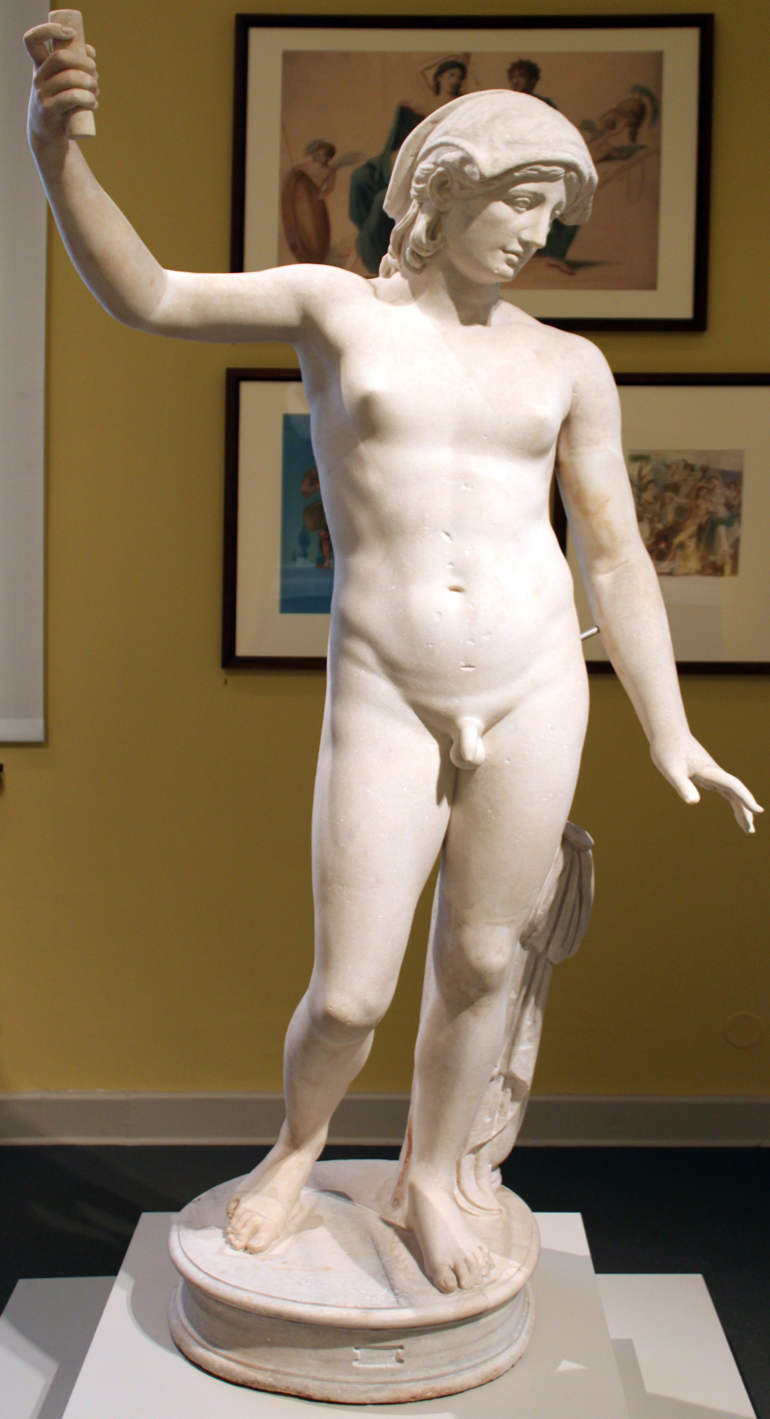 Altes Museum Native nameAltes MuseumLocationBerlinCoordinates52° 31′ 10″ N, 13° 23′ 54″ E Established1828Website control VIAF: 202689698 LCCN: n83197241 GND: 4506837-9 WorldCat "Berlin Hermaphroditus". Acquired in Paris (France) around 1826/28; Marble, around 120-140 AD; SK193